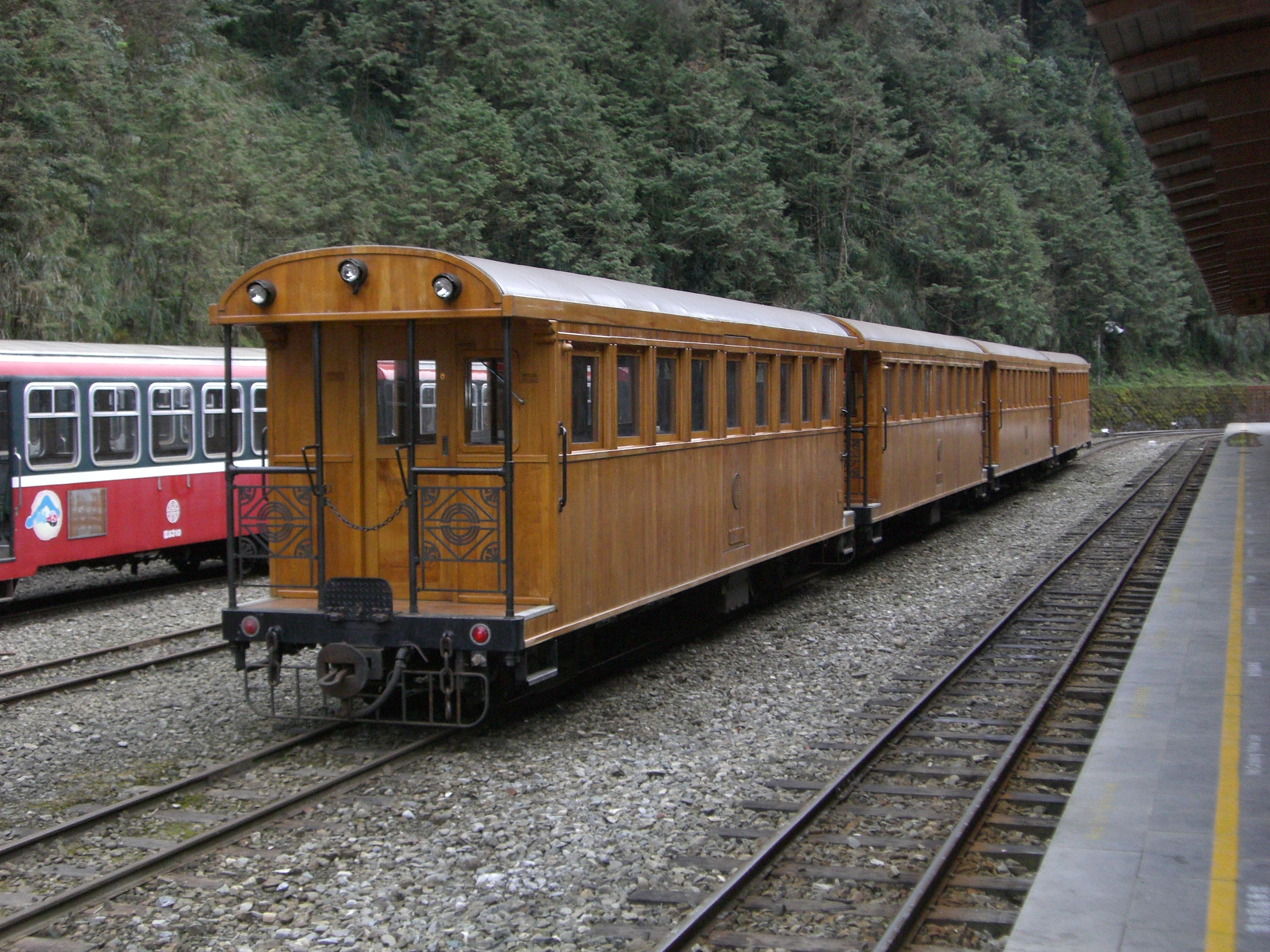 阿里山森林鐵道的檜木車廂 Alishan Forest Railway Hinoki(Chamaecyparis obtusa) made coaches